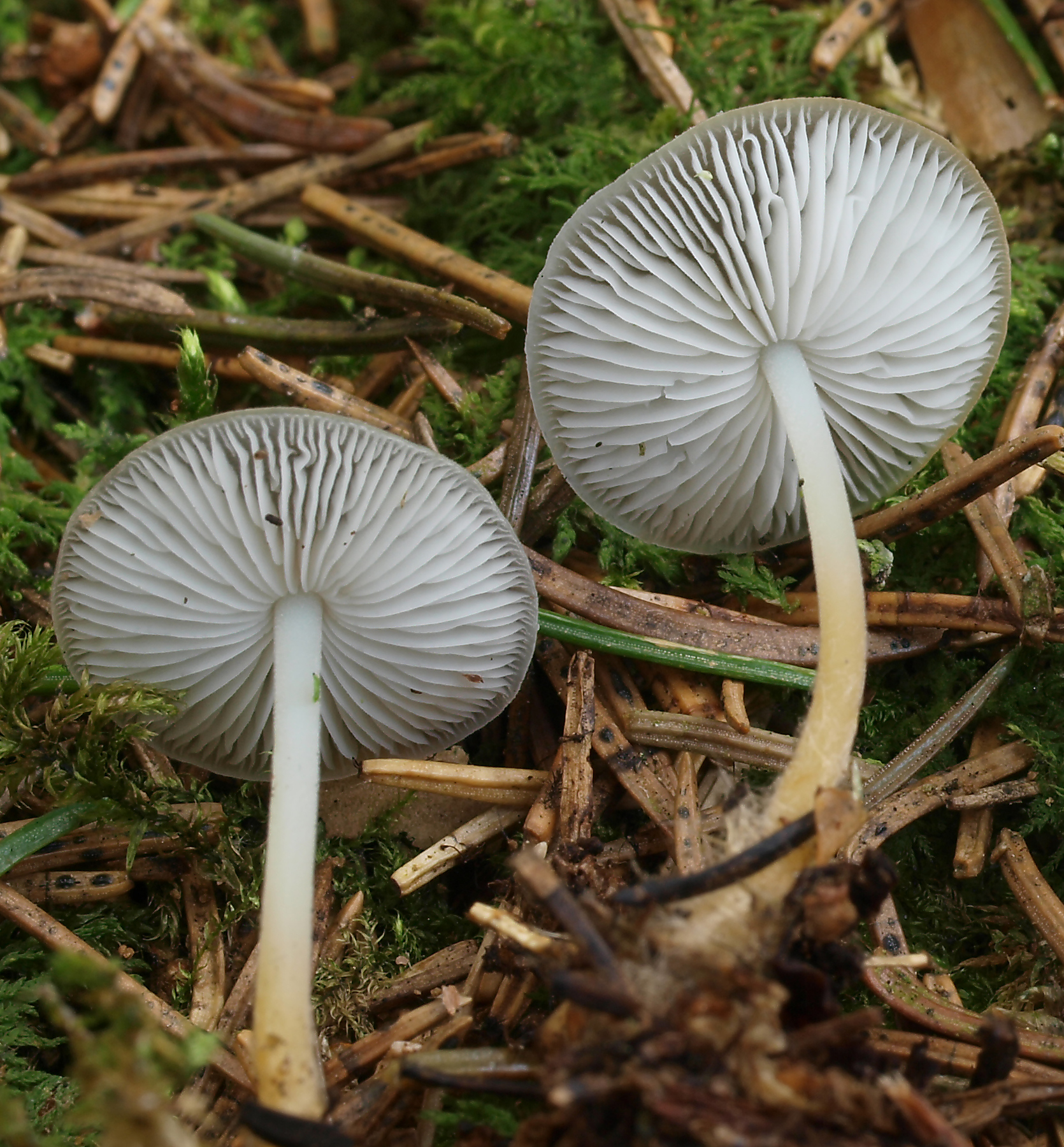 Sprucecone Cap (Strobilurus esculentus)